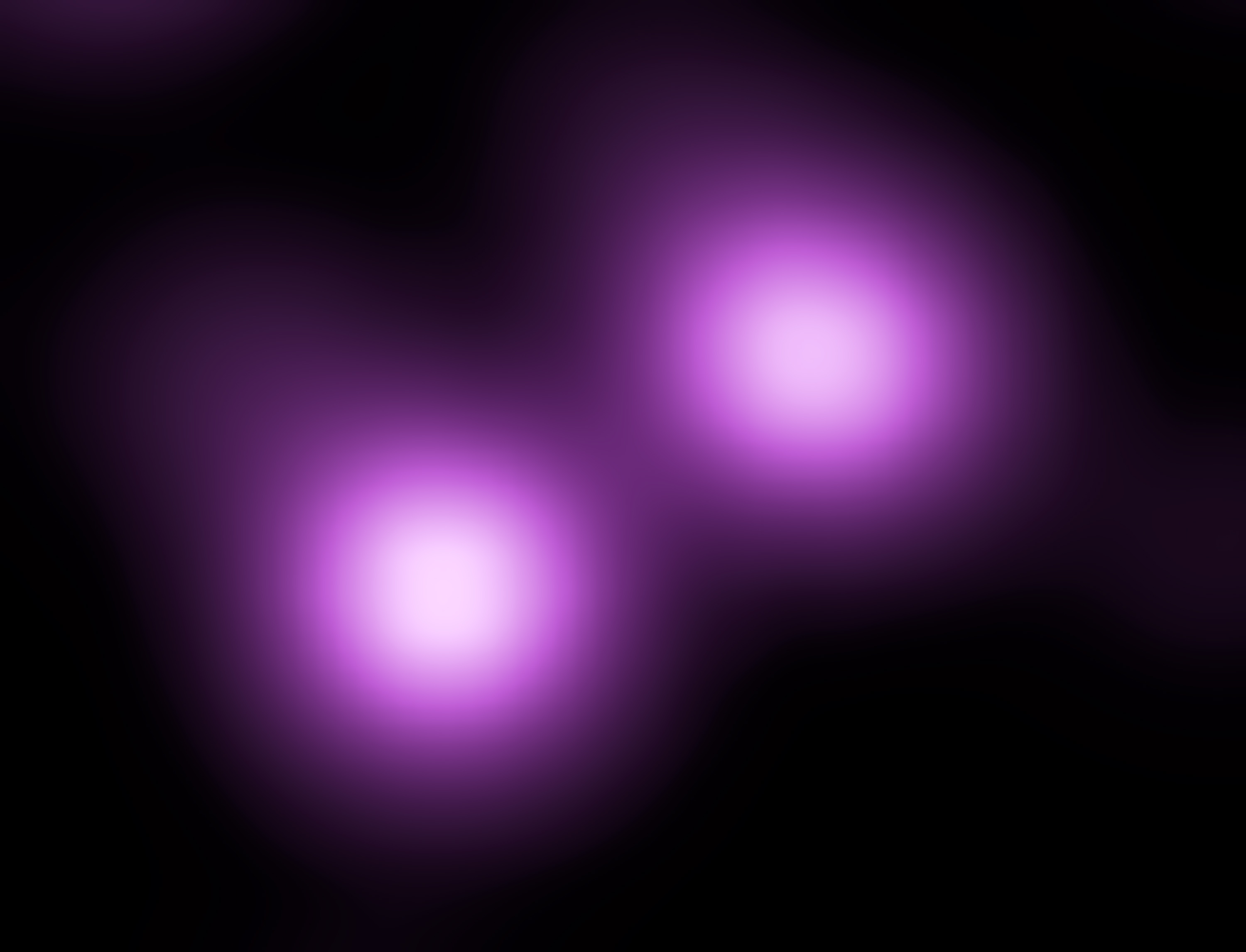 Original caption: "Chandra X-ray Image of SN 2006gy. SN 2006gy is the brightest stellar explosion ever recorded and may be a long-sought new type of supernova, according to observations by NASA's Chandra X-ray Observatory and ground-based optical telescopes. This discovery indicates that violent explosions of extremely massive stars were relatively common in the early universe. These data also suggest that a similar explosion may be ready to go off in our own Galaxy. (Credit: NASA/CXC/UC Berkeley/N.Smith et al.) "